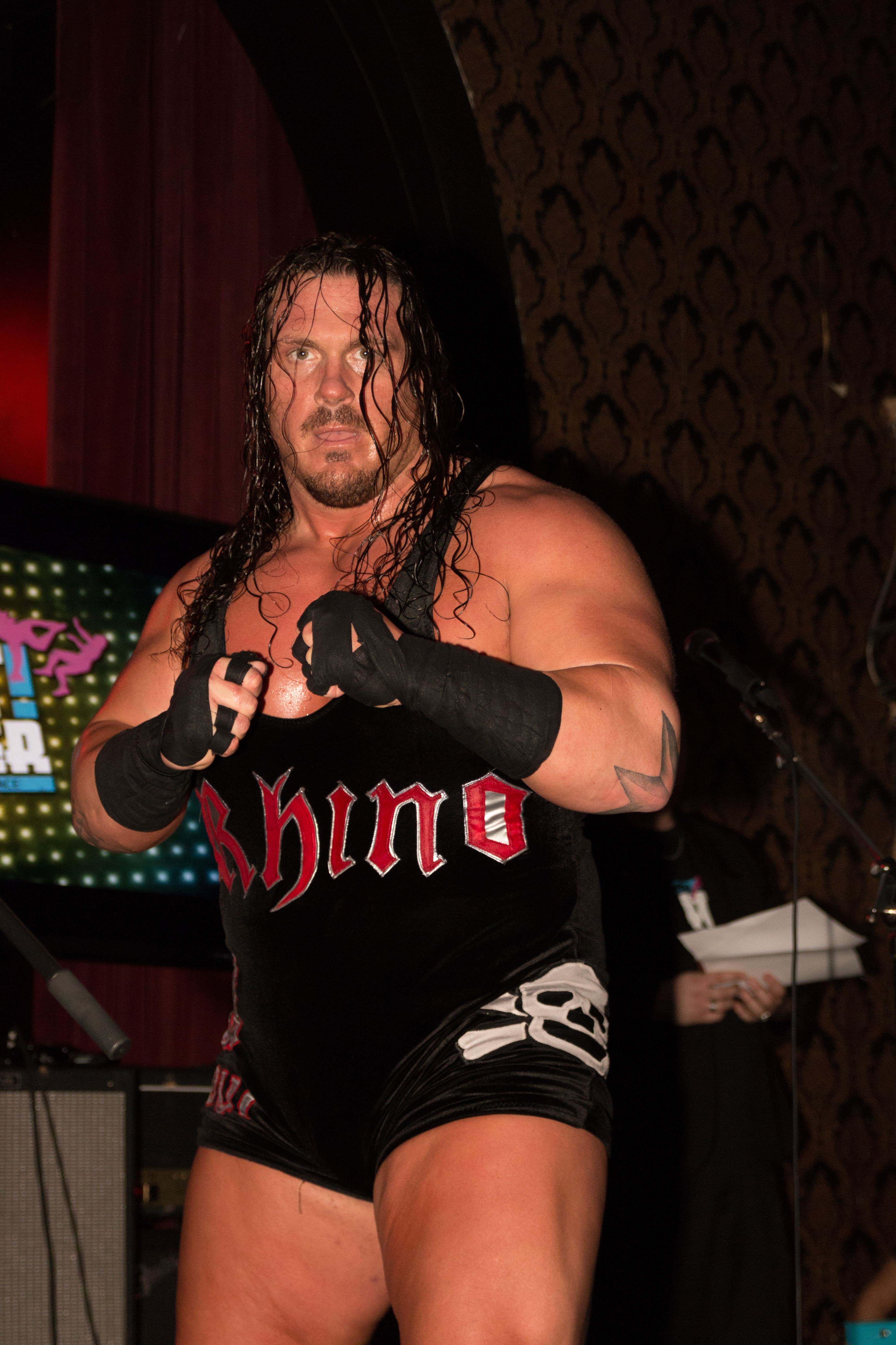 Pro wrestler Rhino at the Fight! 4 Cancer benefit show in Toronto, ON